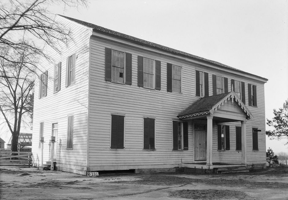 Masonic Hall, U.S. Highway 84 (moved from Claiborne, AL), Perdue Hill, Monroe County, AL. FRONT ELEVATION (EAST). HABS ALA,50-PERHI,1-1.